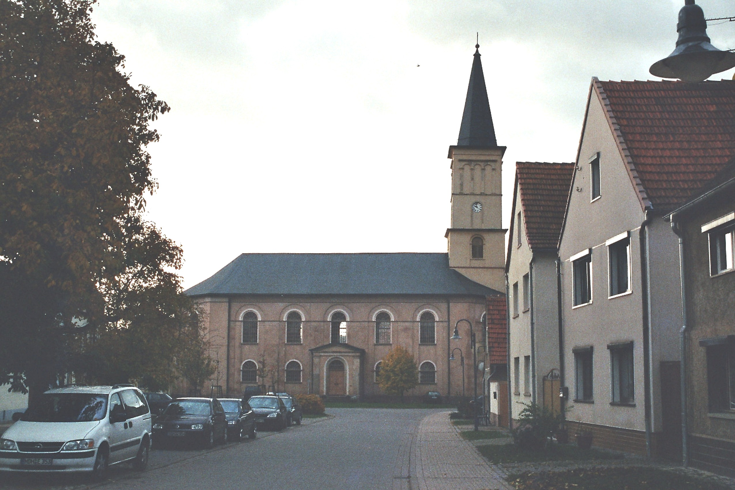 Bennungen (Südharz), the church St. JohnThis is a photograph of an architectural monument. 83392